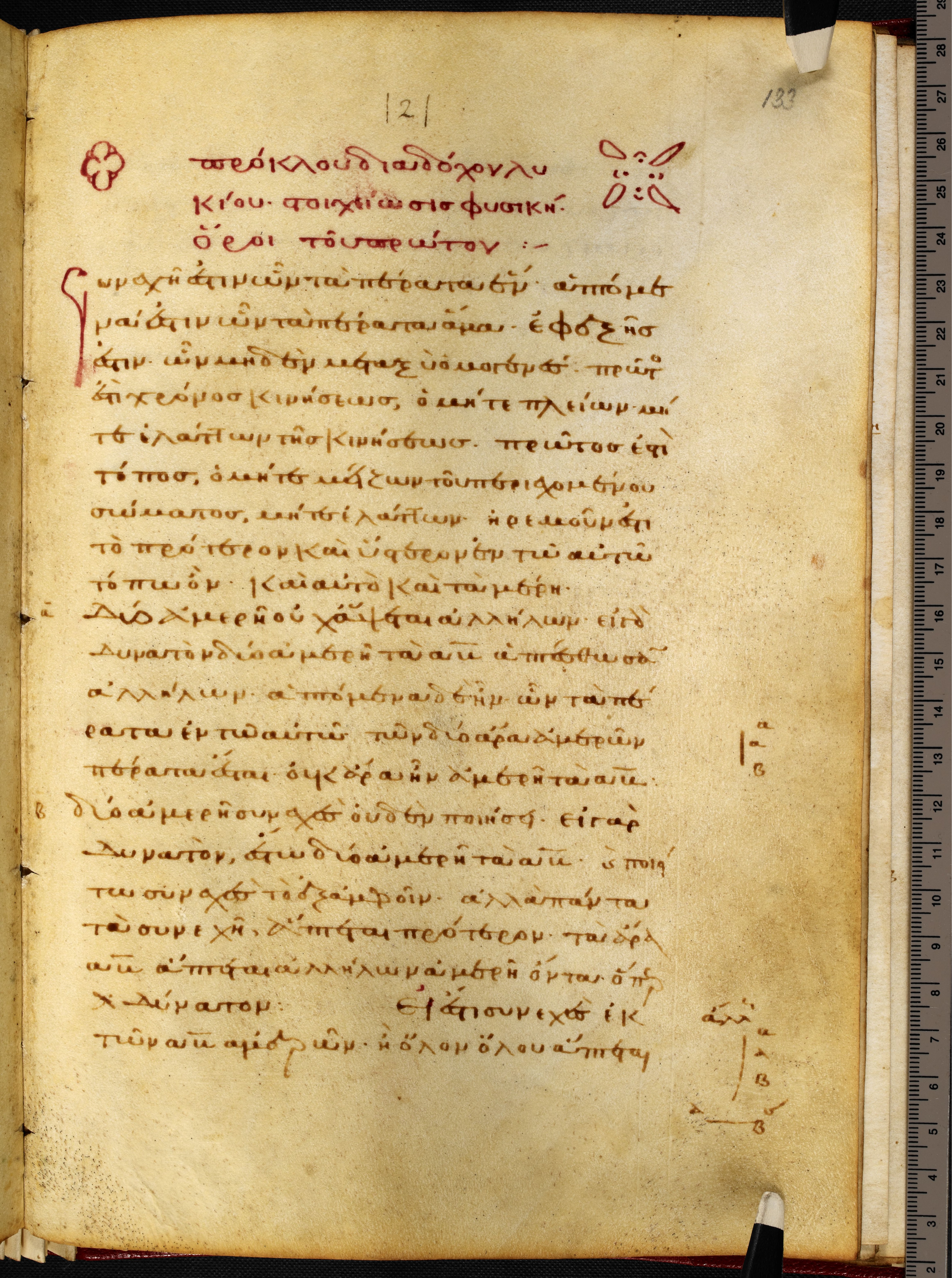 Procli Diadochi Lycii Institutio Physica, ed. A. Ritzenfeld, Leipzig 1912 in London, British Library, Harley MS 5685, fol. 133r.